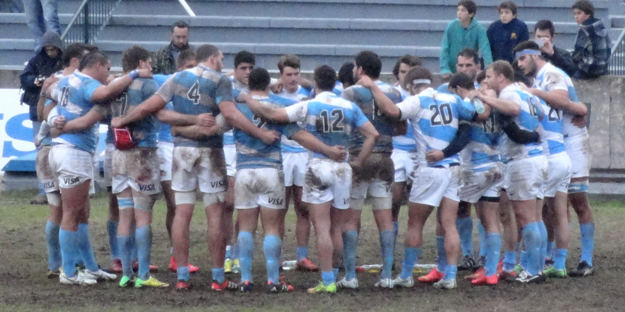 Argentina XV team at a rugby union match versus Uruguay (Los Teros), as a warmup for the 2015 Rugby World Cup.